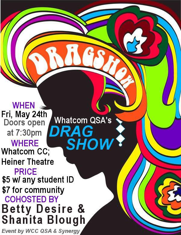 Drag show poster Whatcom Community College May 24 2013